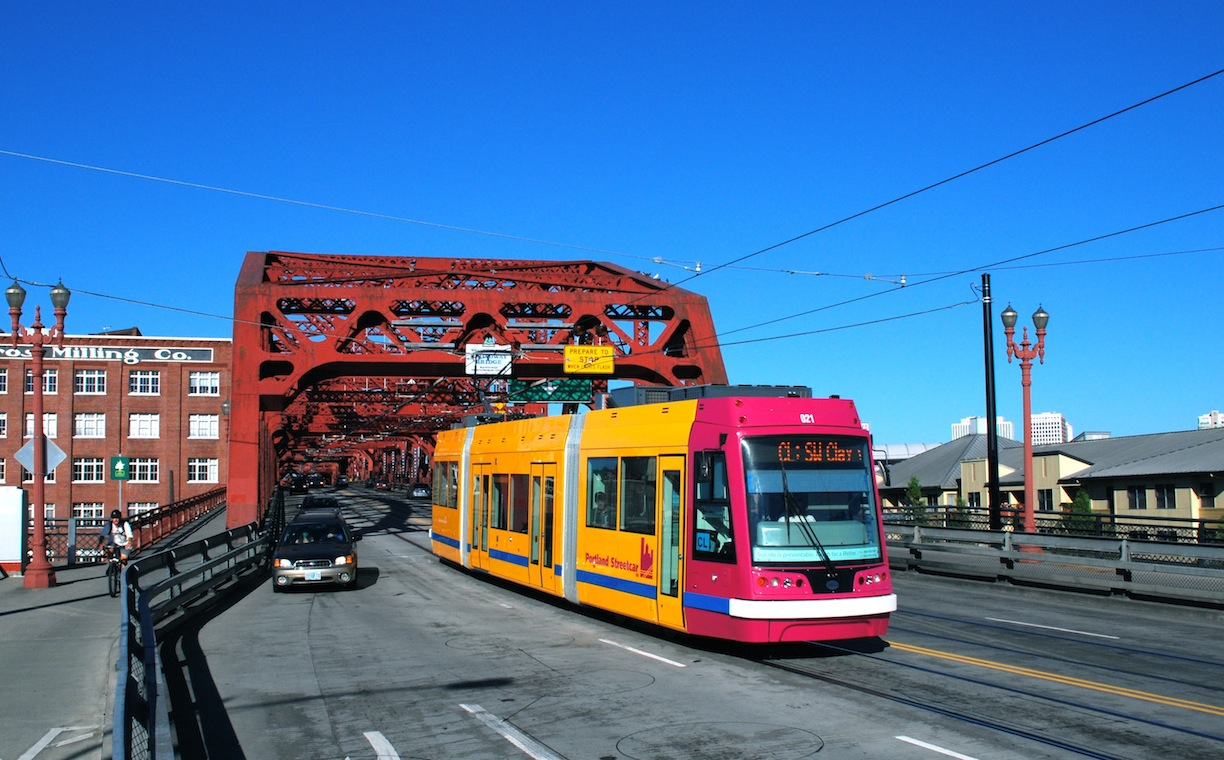 Car 021 of the Portland Streetcar system, built in 2012 by United Streetcar, is leaving the Broadway Bridge (in Portland, Oregon), westbound on the CL Line, which opened in 2012. The Broadway Bridge is a bascule-type drawbridge that was completed in 1913 and is listed on the U.S. National Register of Historic Places. It has carried streetcars from 1913 to 1940 and again since 2012. Car 021 (or 21), a United Streetcar model 100, was the first "production-series" modern streetcar built in the United States since 1952; it was preceded by a prototype modern car, No. 015 (model 10T3), built by United Streetcar in 2009. Car 021 entered service on 11 June 2013.